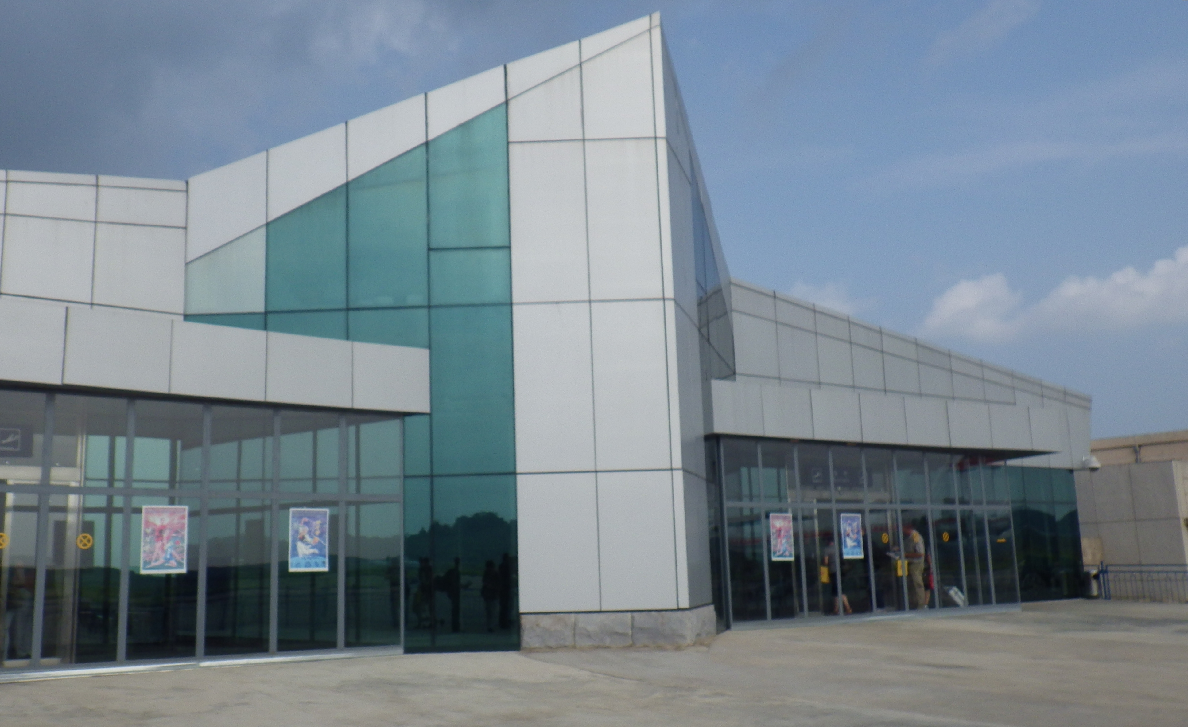 The new terminal that opened last year.